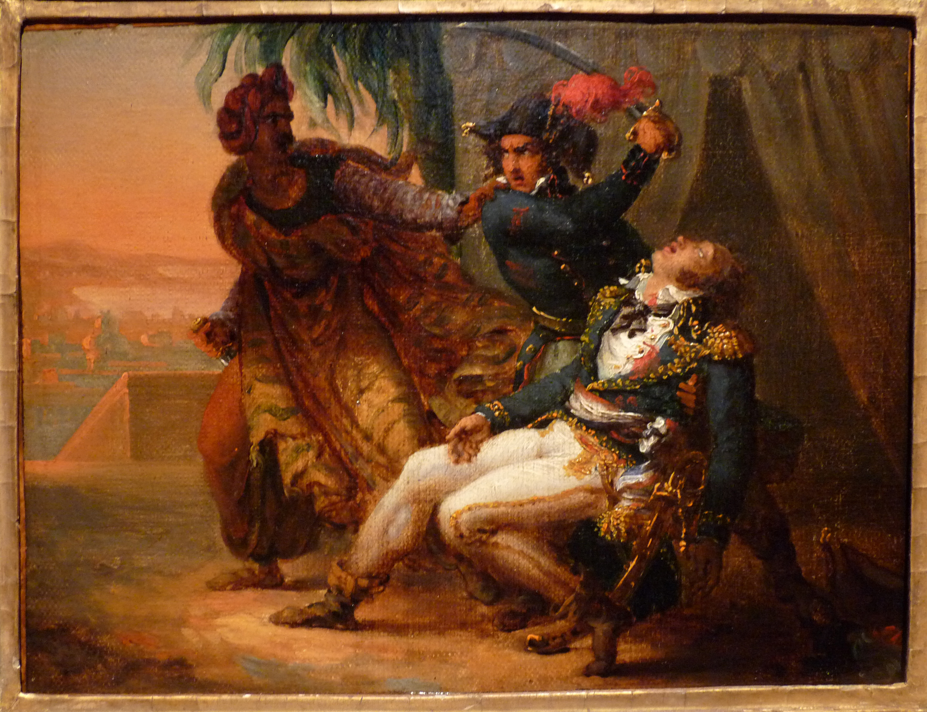 Assassination of general Kleber, workshop of Antoine Jean Gros, baron Gros (1771-1834). Oil oncanvas, on display at Strasbourg Historical museum, accession number MH 941